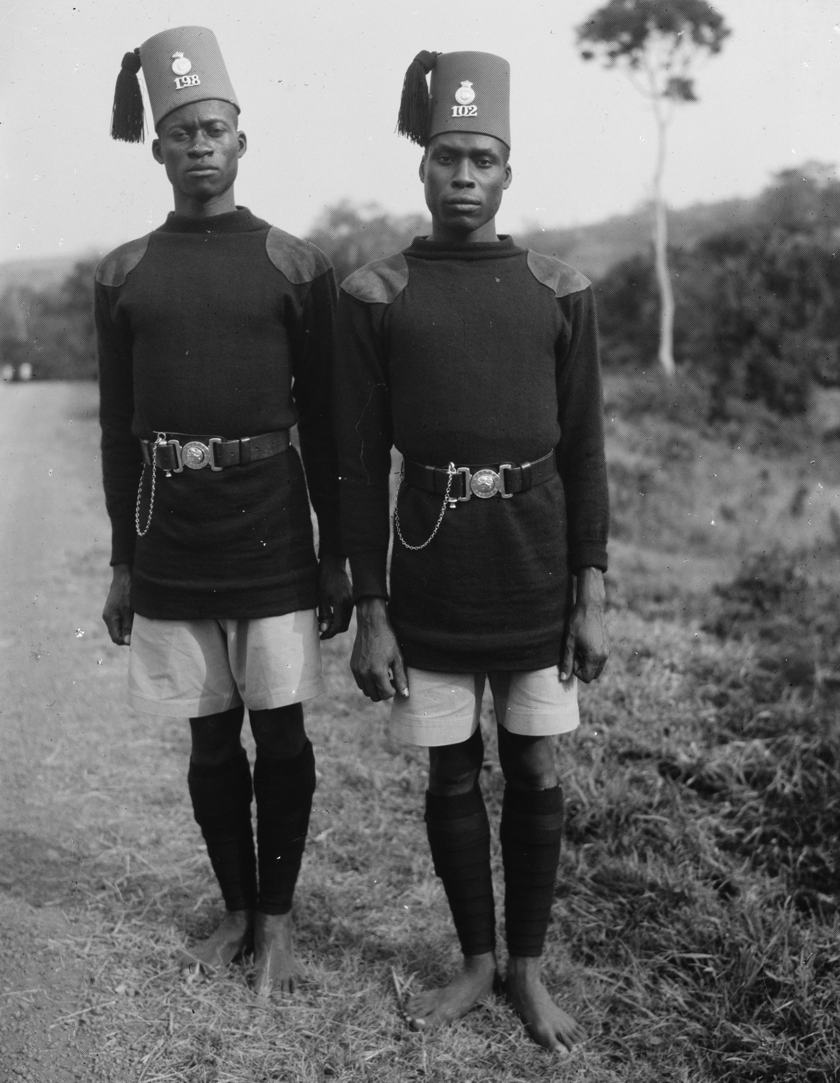 TITLE: Uganda. Kampala. Two soldiers on Jinja Road CALL NUMBER: LC-M31- 8256[P&P] REPRODUCTION NUMBER: LC-DIG-matpc-00328 (digital file from original photo) RIGHTS INFORMATION: No known restrictions on publication. MEDIUM: 1 negative : glass, dry plate ; 4 x 5 in. or smaller. CREATED/PUBLISHED: [1936] CREATOR: Matson Photo Service, photographer. NOTES: Title from: Catalogue of photographs & lantern slides ... [1936?]. Caption continues from catalog: Finlay color negative. From catalog: East Africa copyright photos by G. Eric Matson, American Colony Photo Dept. Monotone, Finlay colour, and Infra red photos, taken on a flight with Imperial Airways on a World Trunk route following the Nile from the Delta to the Victoria Nile and the Victoria Lake. Caption on negative: Uganda soldiers on Jinja road. Gift; Episcopal Home; 1978. SUBJECTS: Uganda--Kampala. FORMAT: Dry plate negatives. PART OF: G. Eric and Edith Matson Photograph Collection REPOSITORY: Library of Congress Prints and Photographs Division Washington, D.C. 20540 USA DIGITAL ID: (digital file from original photo) matpc 00328 CONTROL #: mpc2004000071/PP